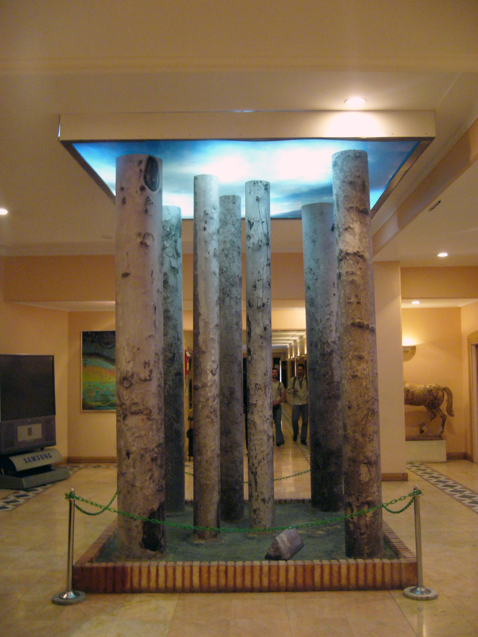 Installation art from Abbas Kiarostami Iranian film director (installed at Iran Art Organization).